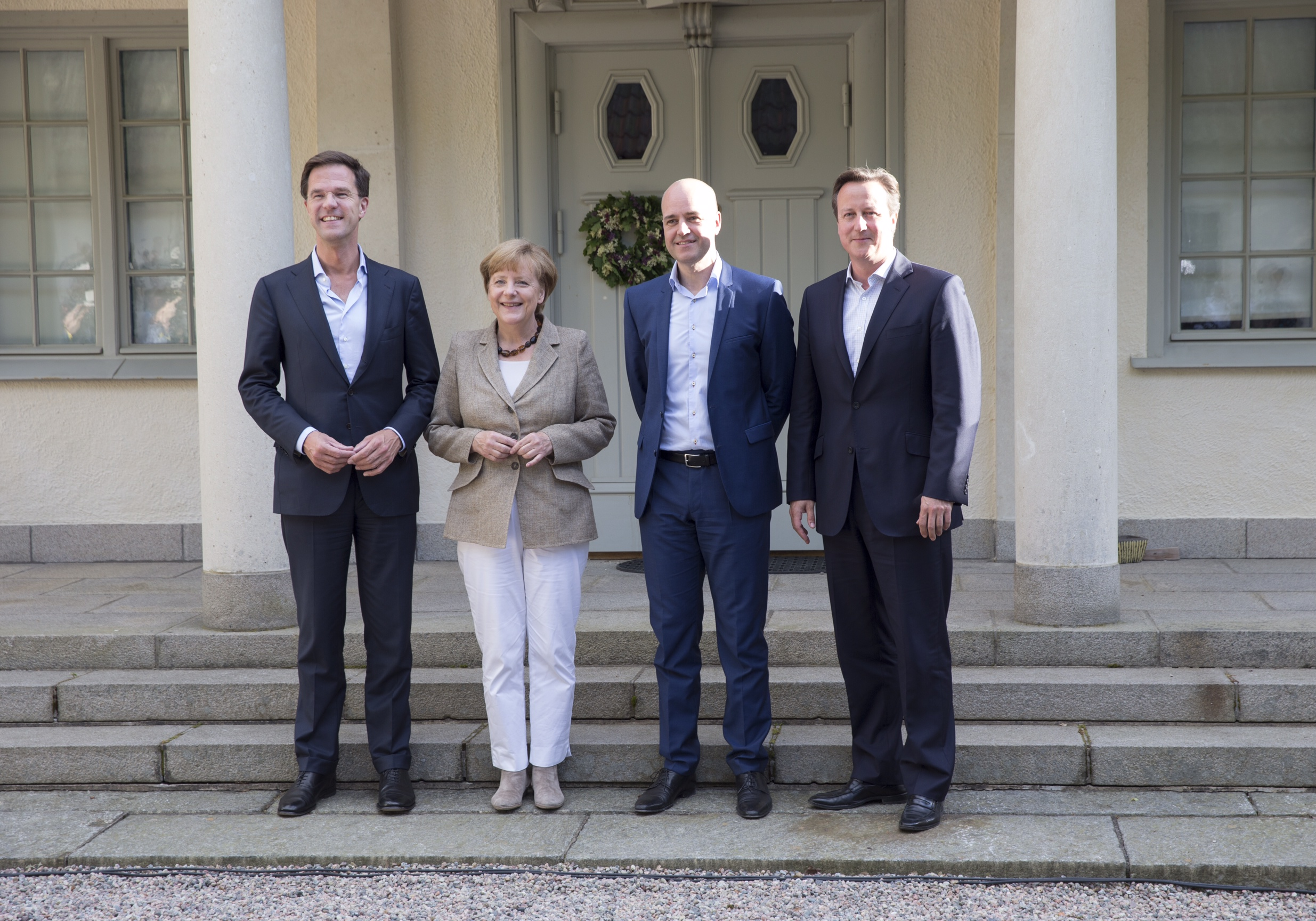 Informal meeting of Prime Minister Mark Rutte of the Netherlands, Chancellor Angela Merkel of Germany, Prime Minister Fredrik Reinfeldt of Sweden and Prime Minister David Cameron of the United Kingdom at Harpsund